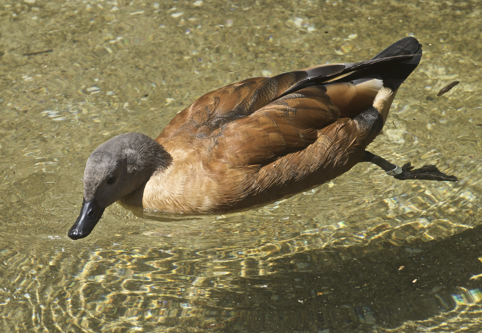 Male South African Shelduck (Tadorna cana)